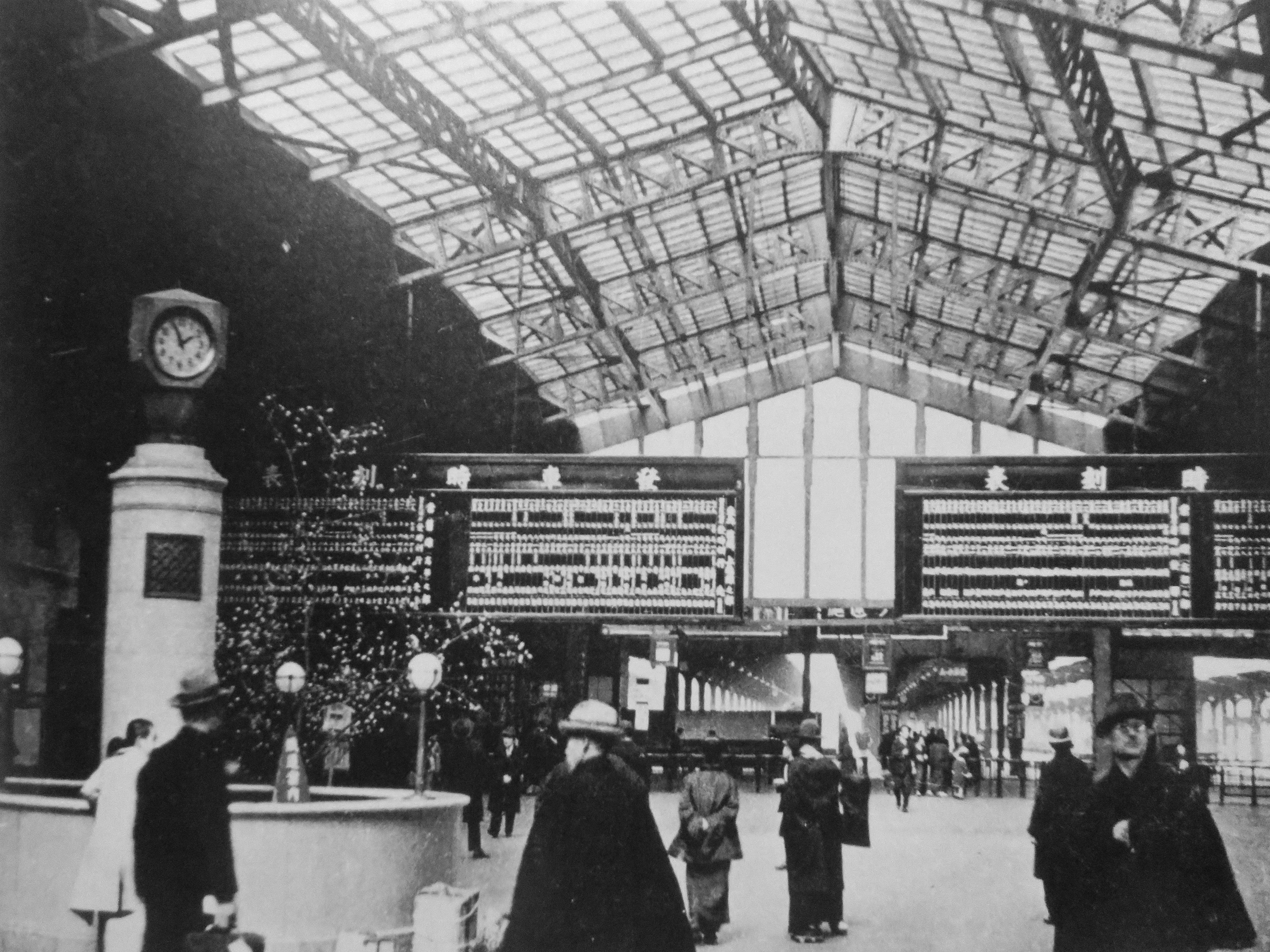 Ueno Station, 1933